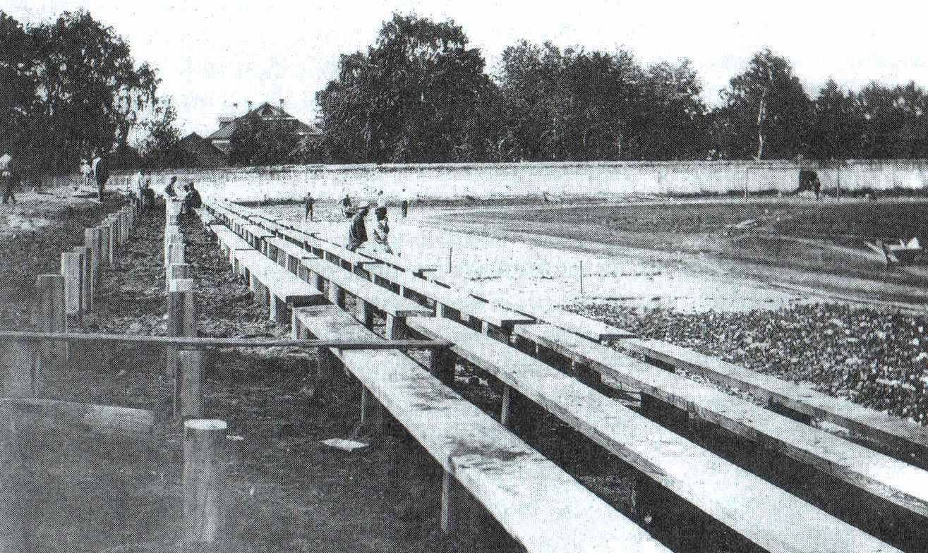 Russia, Vologda, «Dinamo» stadium (1928 year)